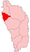 Map of Dominica showing Saint Peter parish.